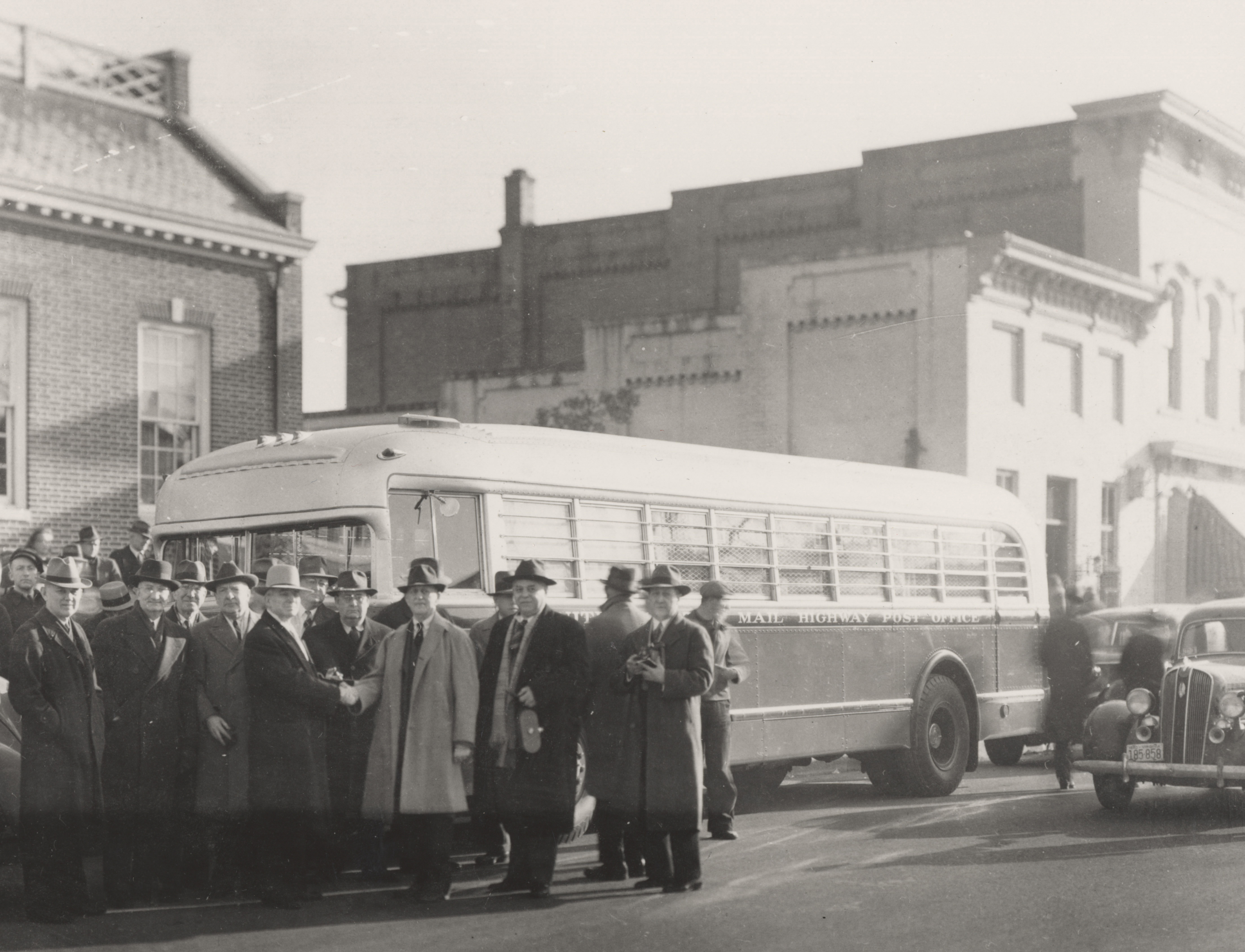 Description: Officials are gathered to welcome the first Highway Post Office bus in Strasburg, Virginia on February 10, 1941. This bus traveled on a route between Washington, DC and Harrisonburg, Virginia. By the 1930s, a significant decline in railroad passenger traffic had caused a subsequent decline in the use of railway trains. To fill the void, the postal service transferred some en route distribution from trains to highway buses. This is the first Highway Post Office bus and is the collection of the National Postal Museum. Creator/Photographer: Unidentified photographer Medium: Black and white photographic print Geography: USA Date: 1941 Collection: U.S. Highway Post Office Repository: National Postal Museum Accession number: A.2006-79